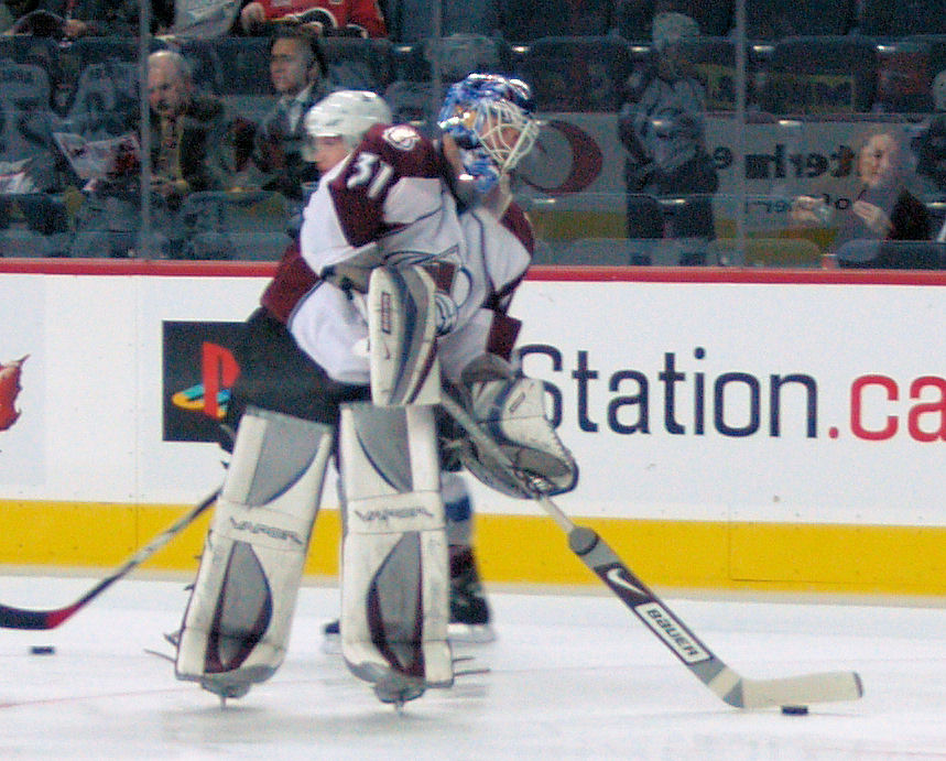 Peter Budaj warming up before a game. Calgary, Alberta